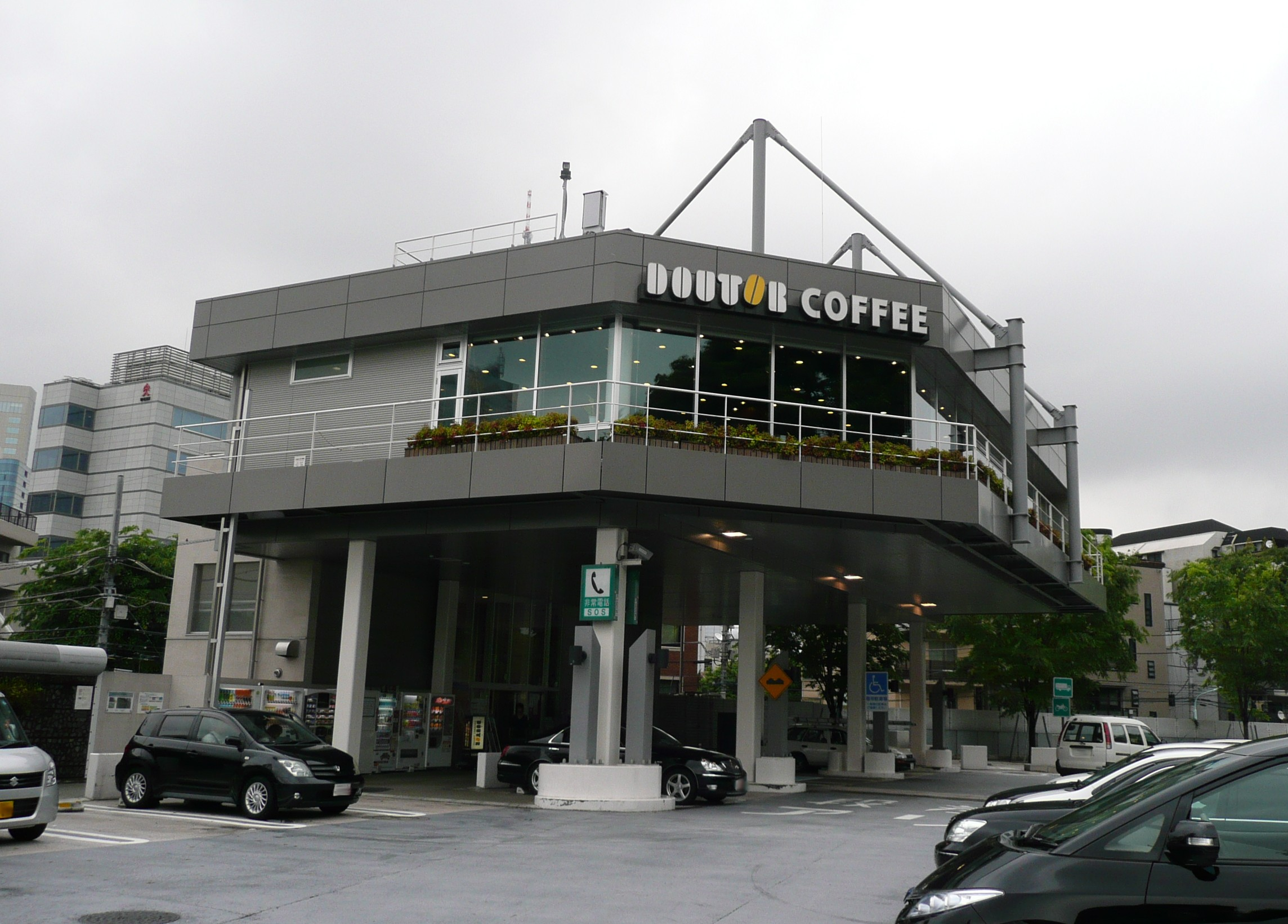 Yoyogi Parking Area